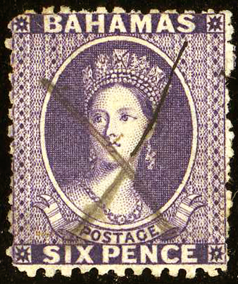 Bahamas 6 pence issue 1863 (watermark crown CC), pen cancel. Probably deep violet (SG31).